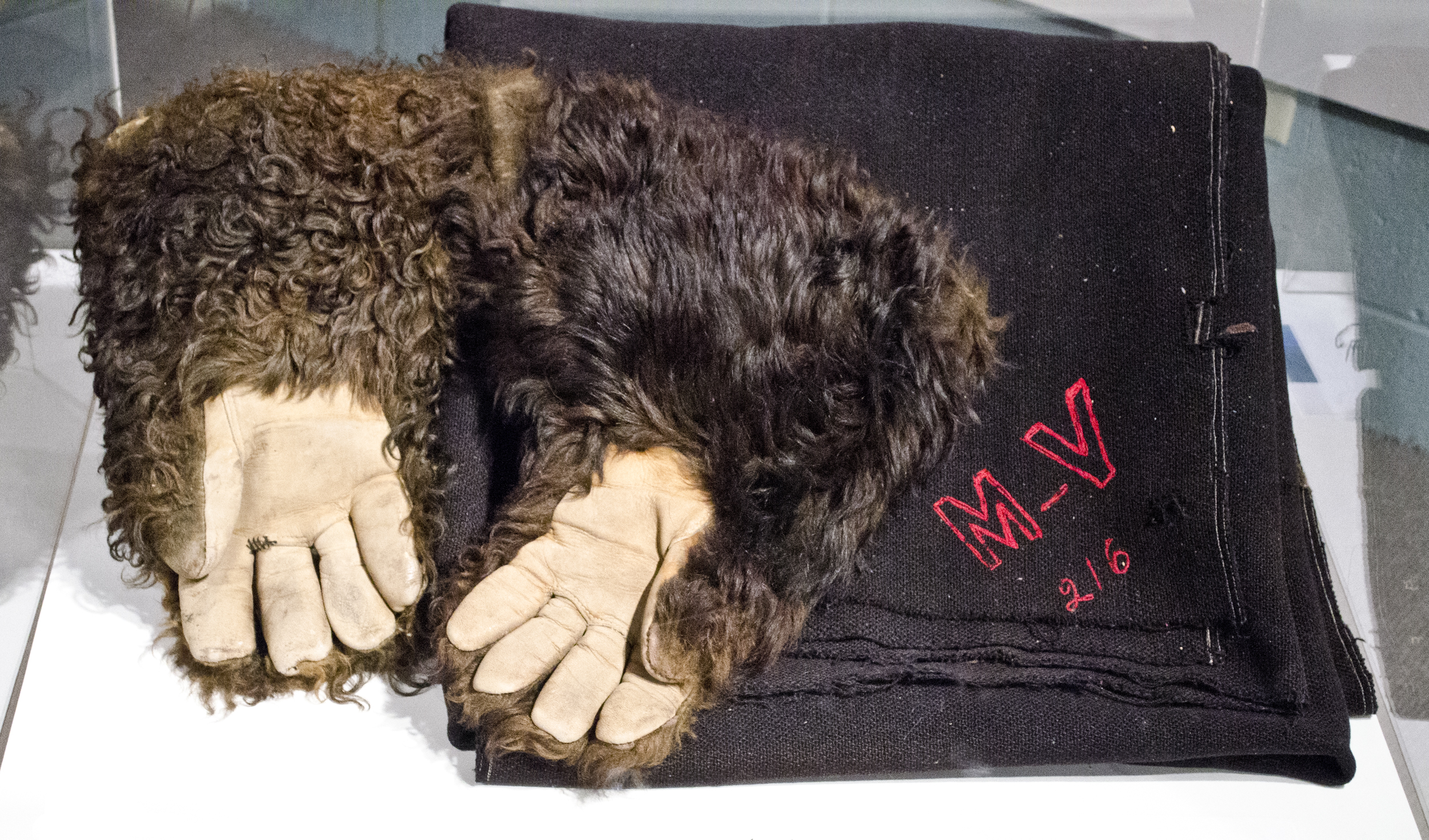 Bison hair gloves and a wool blanket used by the Monida and Yellowstone Stage Company in the early 1900s, on display at the Museum of the Rockies in Bozeman, Montana.